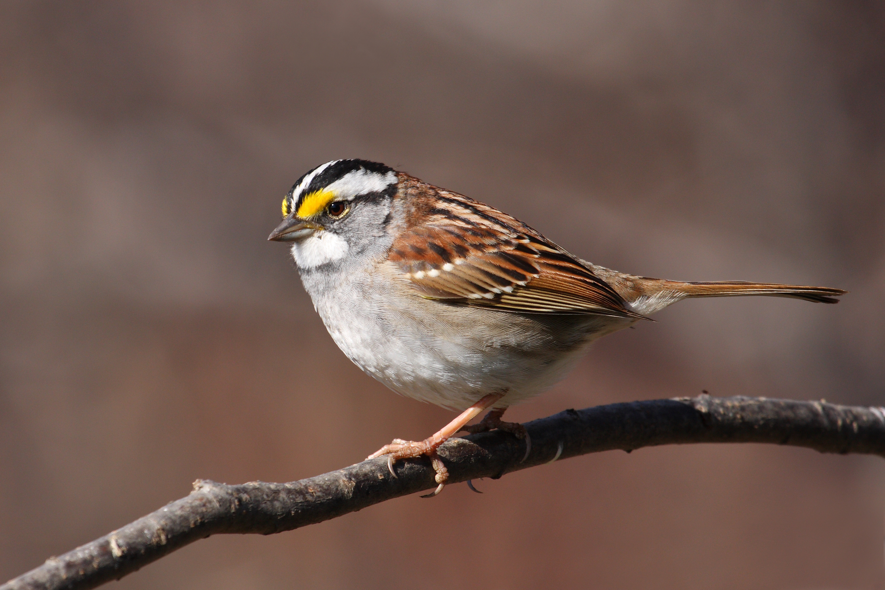 White-throated Sparrow (Zonotrichia albicollis), Cap Tourmente National Wildlife Area, Quebec, Canada.